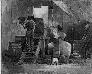 Illustration in the August 23, 1879 edition of Harper's Weekly showing a moonshiner and his still in North Carolina. This was part of a larger composite entitled "Law and Moonshine – Crooked Whiskey in Western North Carolina."